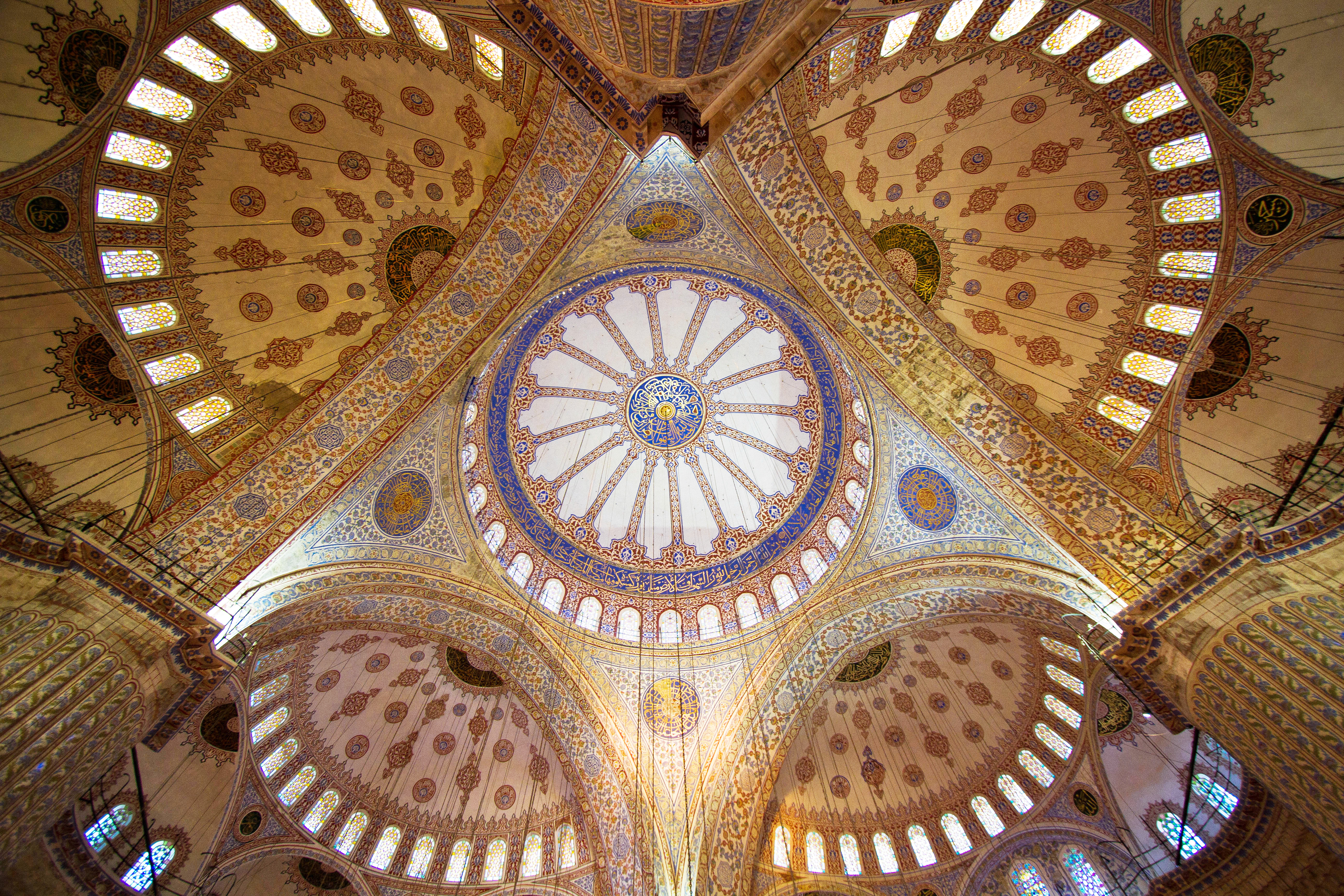 The blue mosque